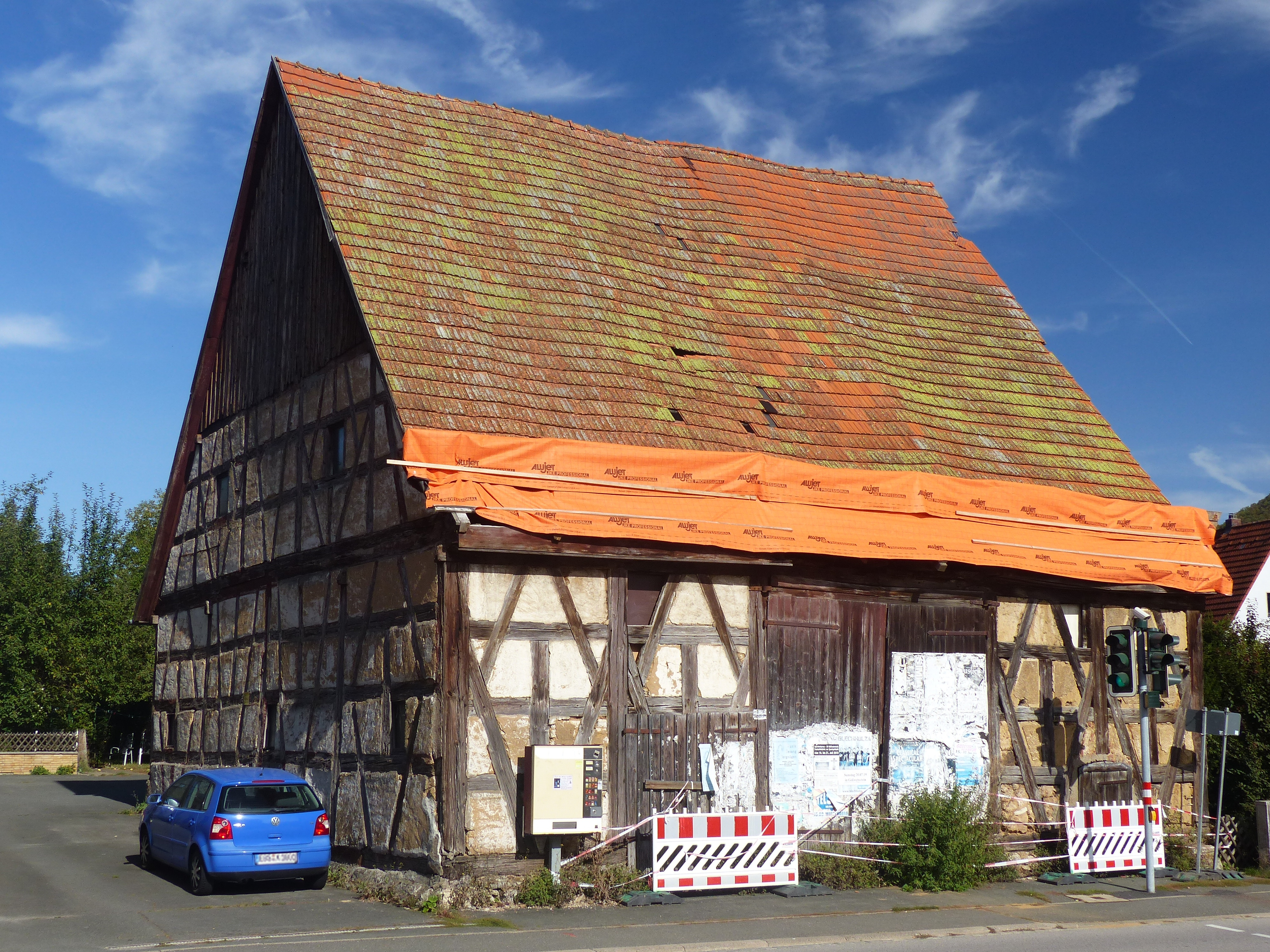 A barn in the village Breitenbach, a district of the town of Ebermannstadt.